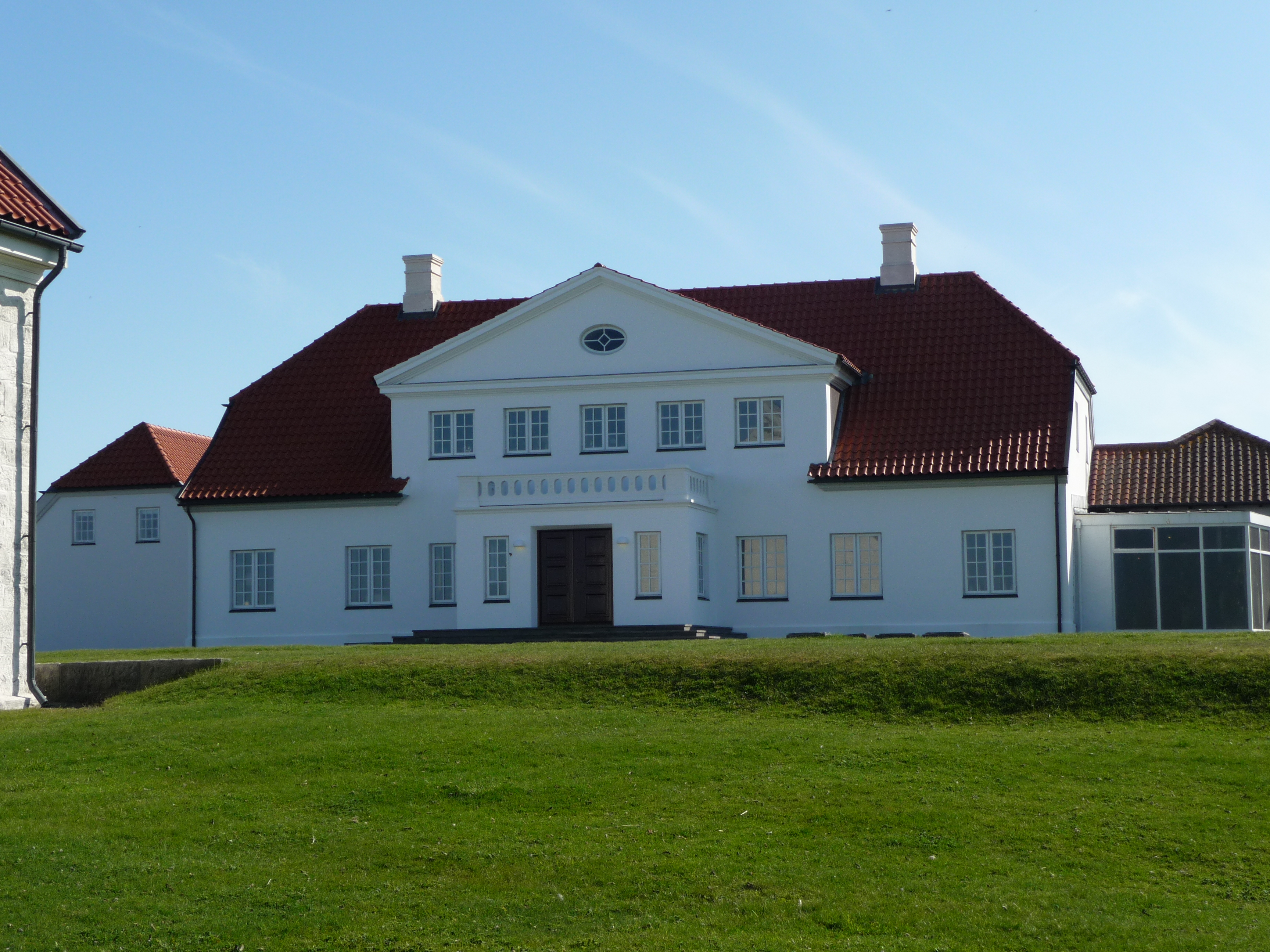 Bessastaðir, in Álftanes, is the official residence of the President of Iceland.